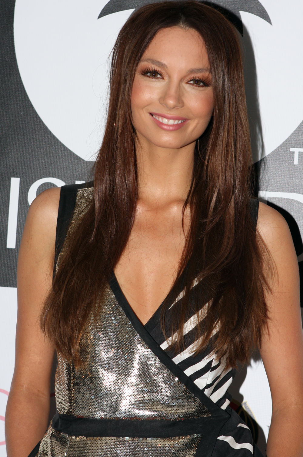 Ricki-Lee Coulter at Blue Beat Club in Double Bay, Sydney.